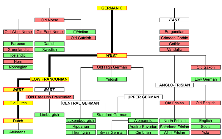 Dutch language tree starting from Germanic